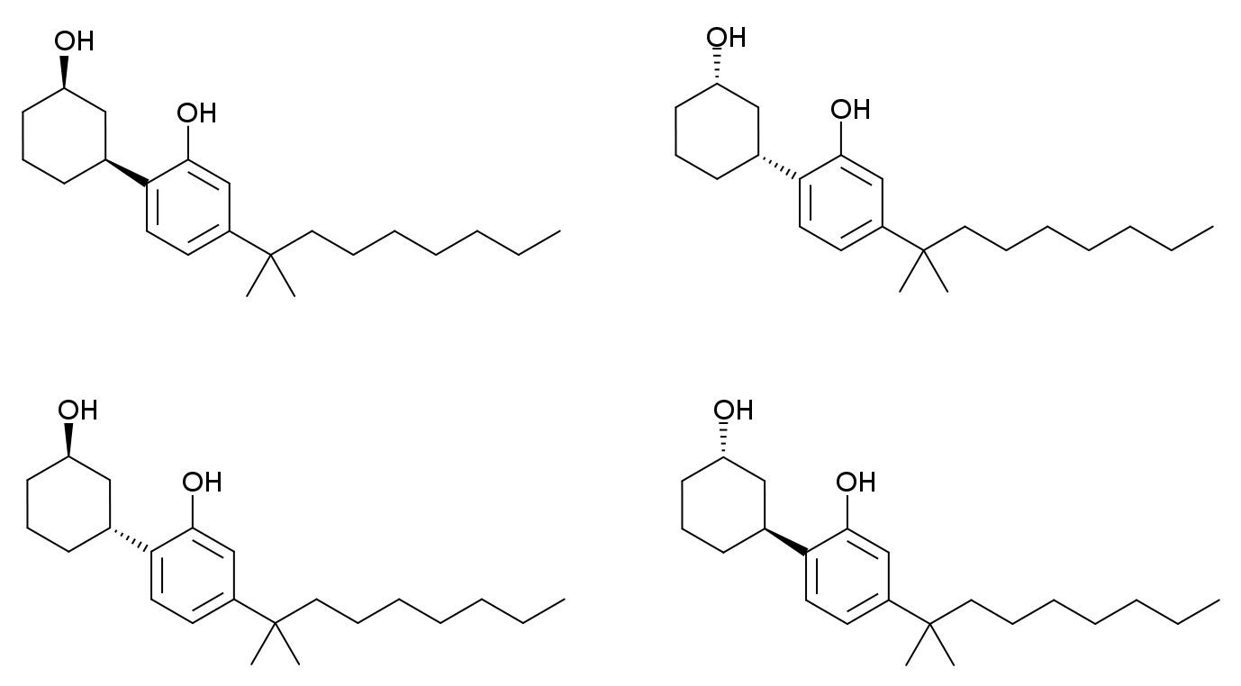 Structure of the four enantiomers of cannabicyclohexanol